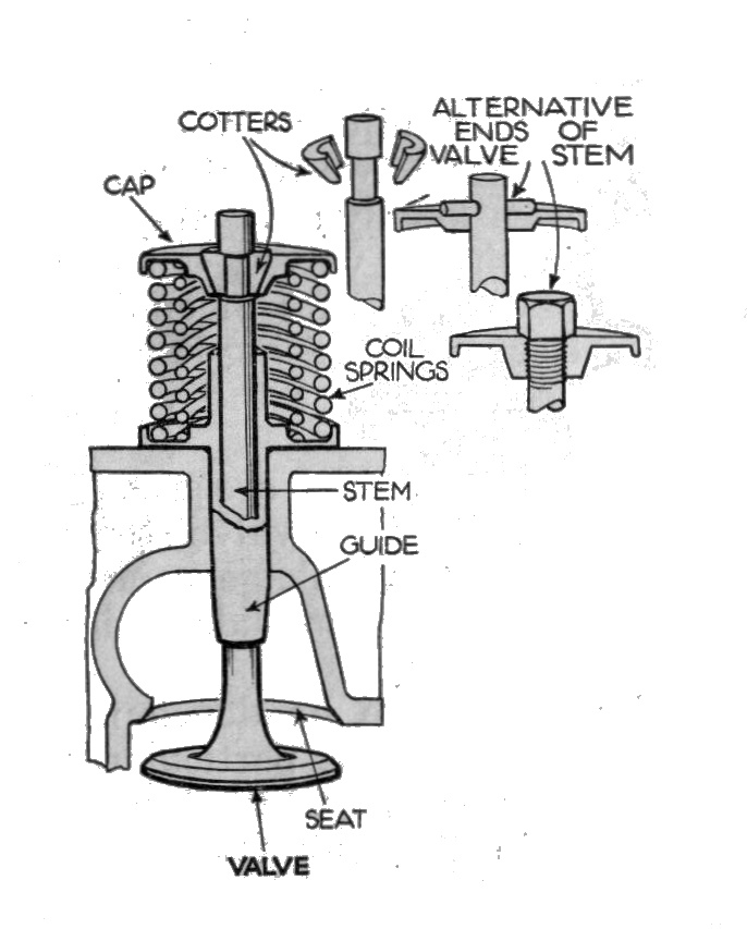 Overhead valve retainers (Autocar Handbook, 13th ed, 1935).jpg